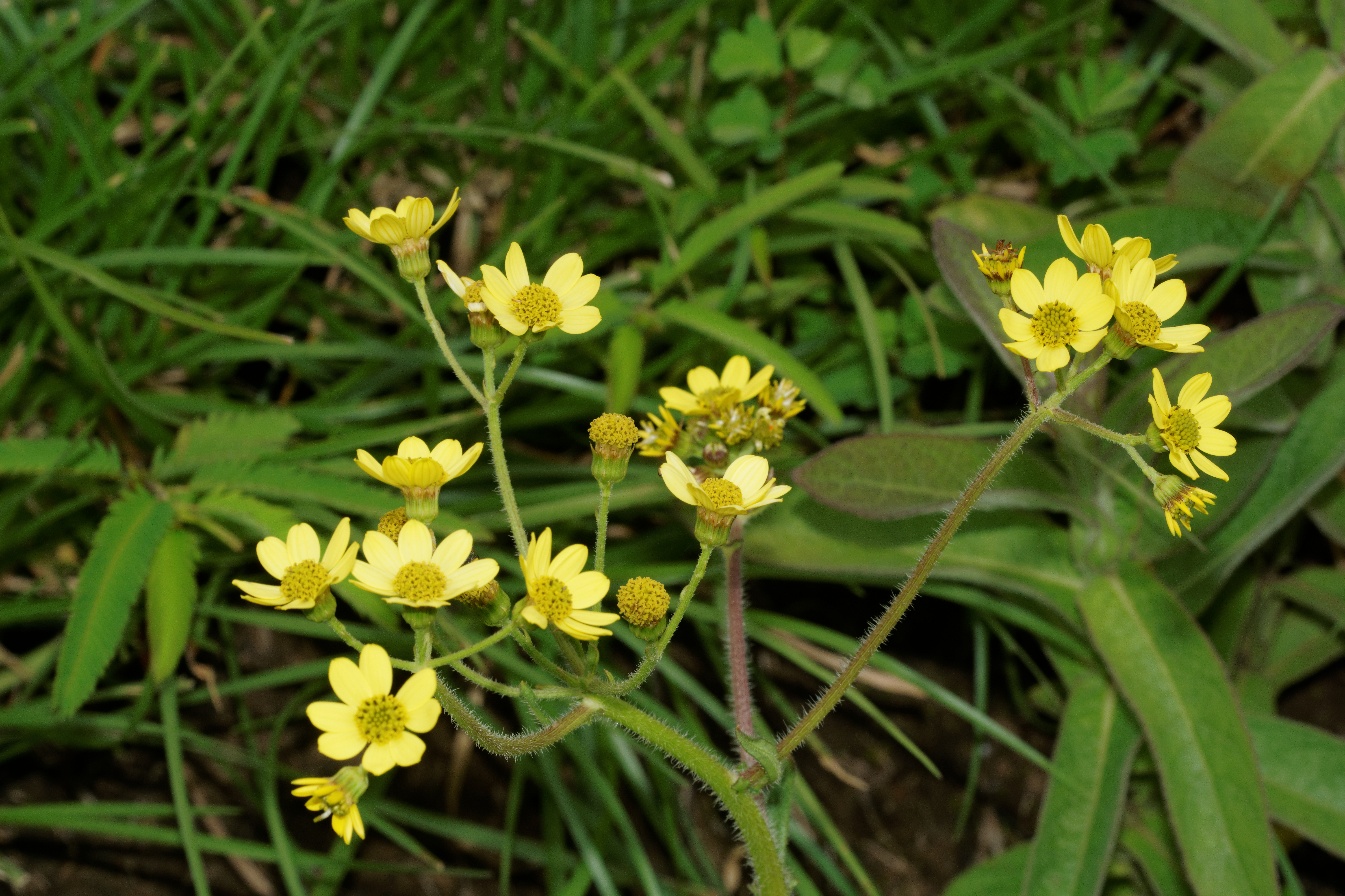 Senecio neelgherryanus, Nilgiri Senecio, is a greenish white, perennial, stout, hairy herb; endemic to Southern Western Ghats. It is found at varied elevations, above 1300 m. (ID: Indian Flora)